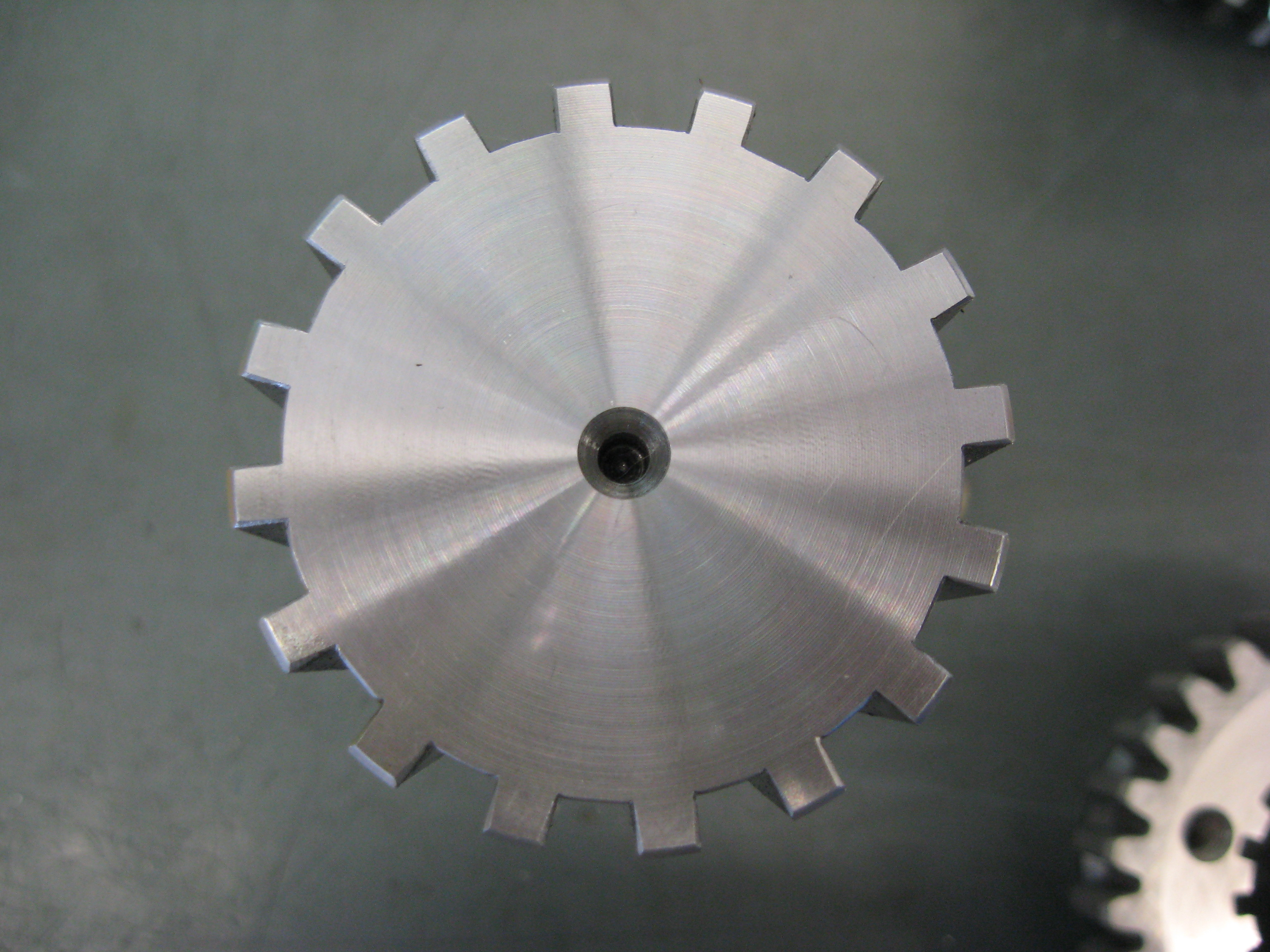 Straight sided spline